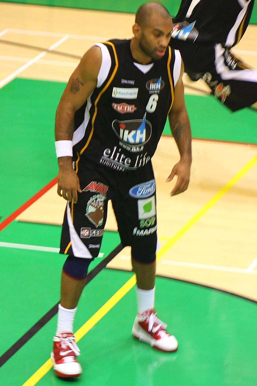 Basketball player John Allen playing for Karhu against Pyrintö